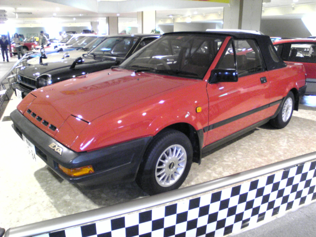 The Nissan Pulsar EXA convertible, a rare limited edition model from 1984.